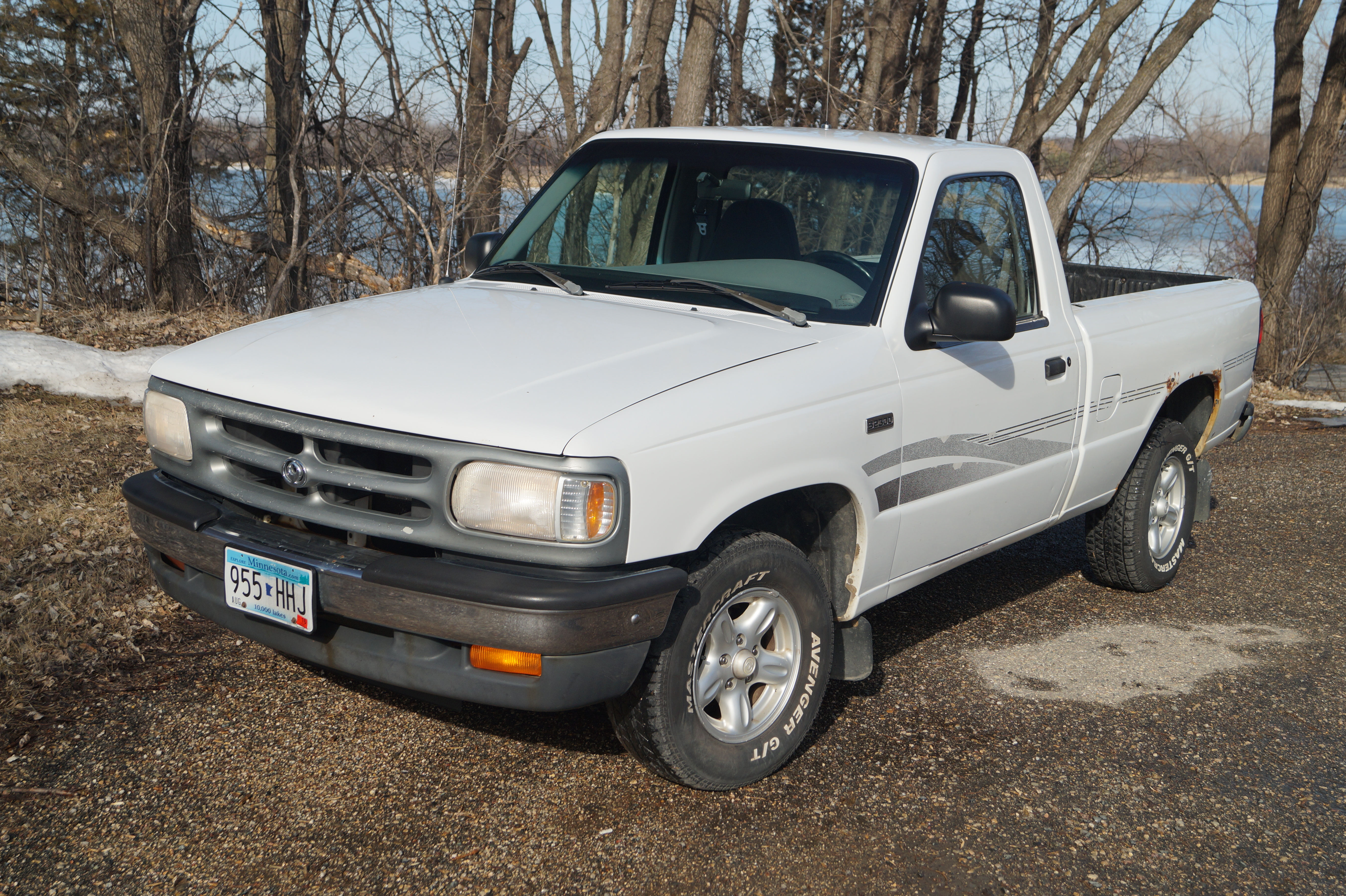 Click here for more car pictures at my Flickr site.